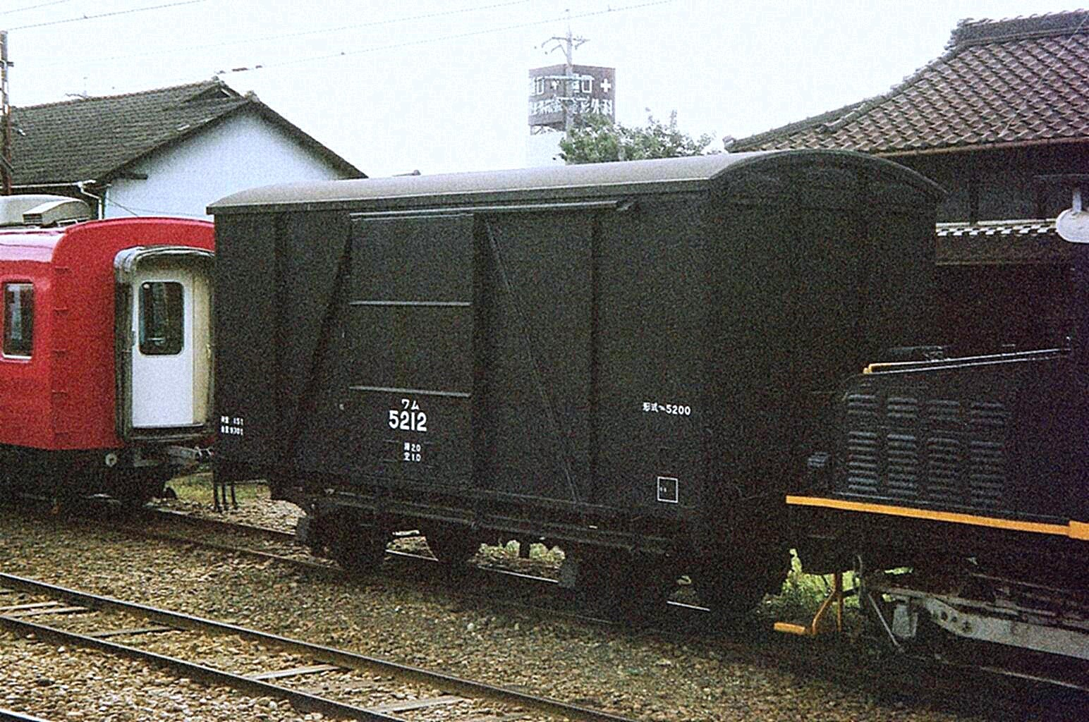 Nagoya Railroad Type Wamu5212 Freight car(Japan).